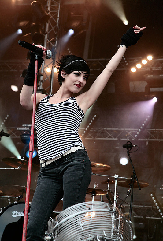 Jennifer Ayache of Superbus